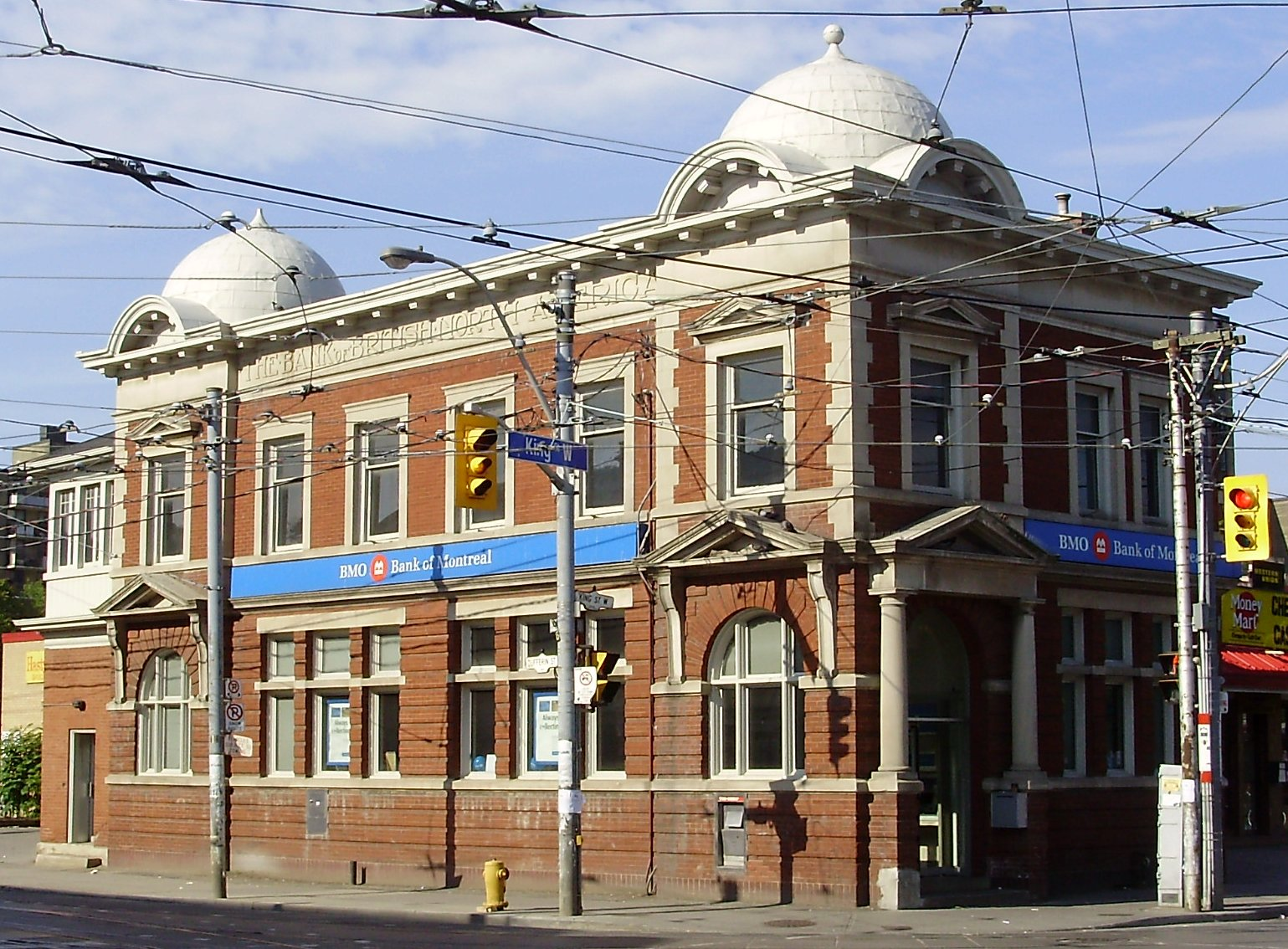 A former branch office of the Bank of British North America, dating prior to 1918, at the corner of King Street and Dufferin Street in Toronto, Canada. It currently houses a Bank of Montreal branch.